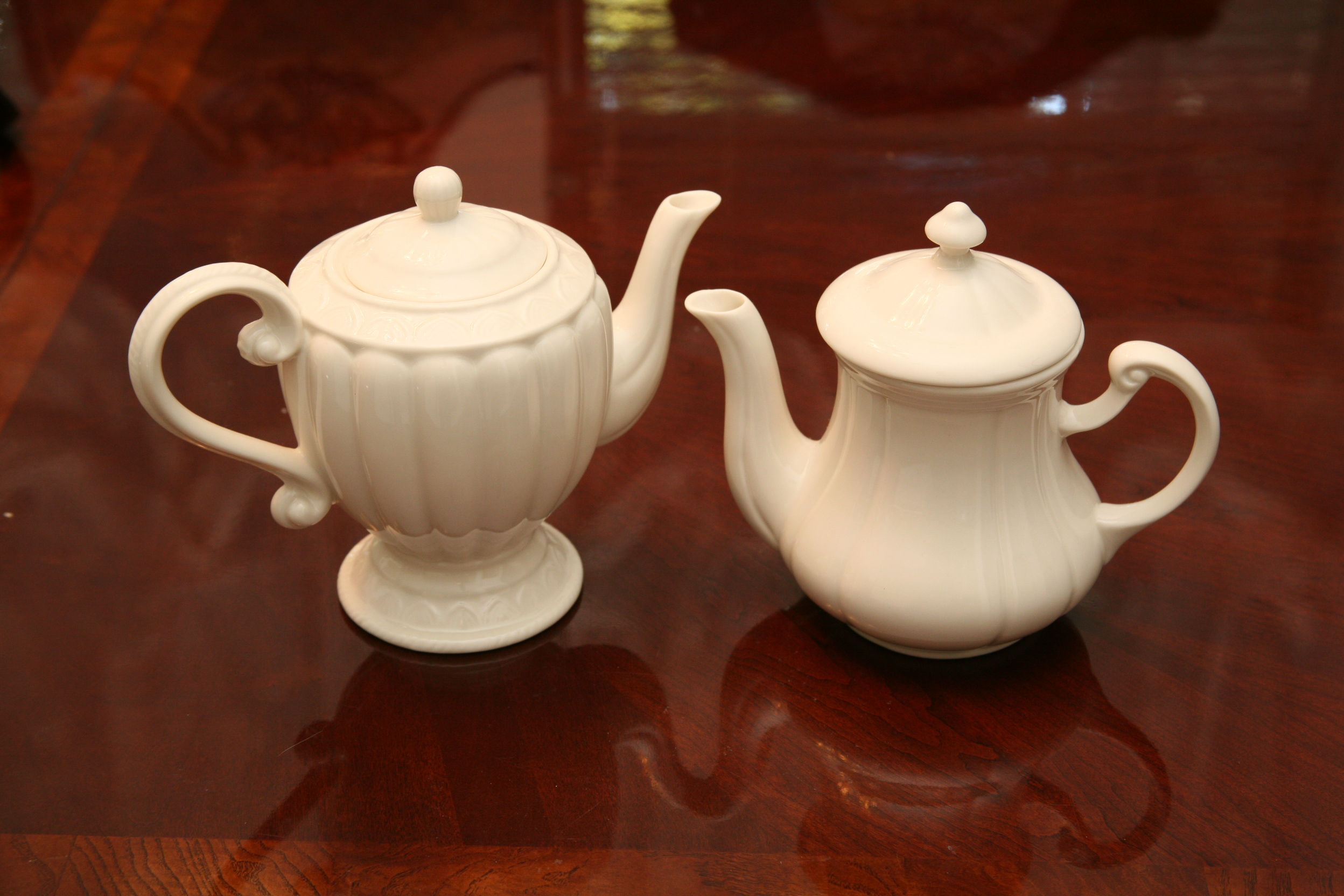 Picture of teapots.